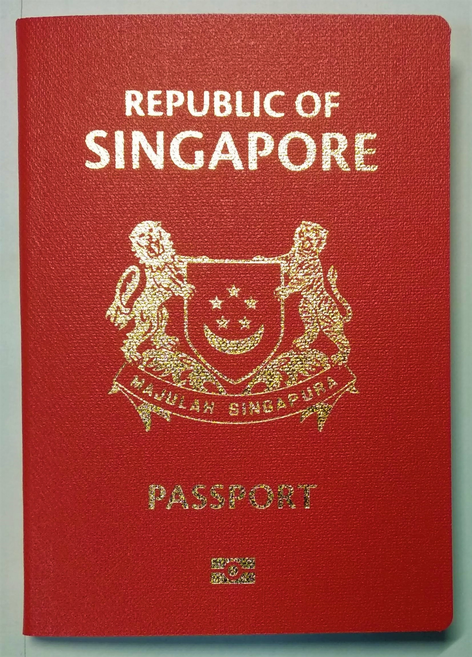 Singapore Biometric Passport Cover 2018